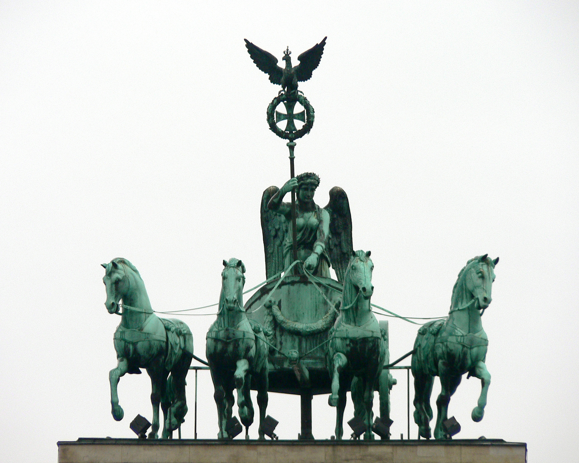 Brandenburg Gate Quadriga, Berlin, Germany